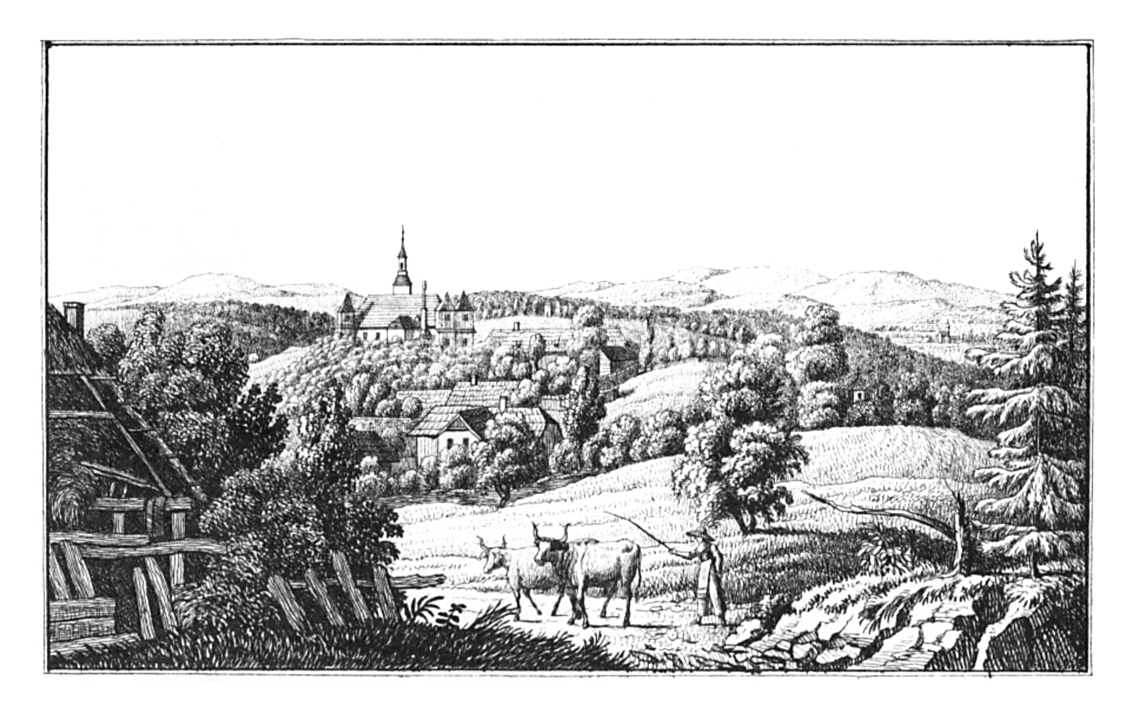 J. F. Kaiser - lithographirte Ansichten der Steyermärkischen Städte, Märkte und Schlösser, Graz 1824-1833 Joseph Franz Kaiser (1786–1859) Alternative names J. F. KaiserDescriptionAustrian printer and editorDate of birth/death 11 March 1786 19 September 1859Location of birth/death Graz (Styria) GrazAuthority control : Q1499963 VIAF: 30629353 ISNI: 0000 0000 3083 0153 LCCN: n87141671 GND: 129880159 NLP: A24960305 WorldCat creator QS:P170,Q1499963 . Scanprojekt Community Projektbudget 2012 This scan or this PDF-file was created within the GLAM-project Bookscanning, supported by Wikimedia Germany and Wikimedia Austria as a part of the community-project to capture books, documents and pictures which are not eligible to copyright or for which the copyright has expired. This document describes or depicts an object which is located in Austria today. Send requests for uncompressed scans to Hubertl. This work is in the public domain in its country of origin and other countries and areas where the copyright term is the author's life plus 100 years or less. You must also include a United States public domain tag to indicate why this work is in the public domain in the United States. This file has been identified as being free of known restrictions under copyright law, including all related and neighboring rights.